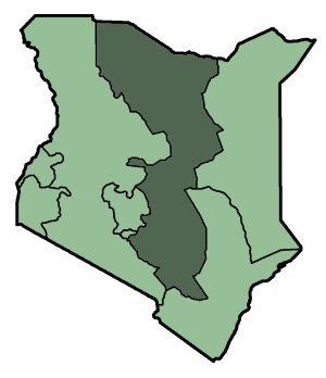 Eastern Province of Kenya